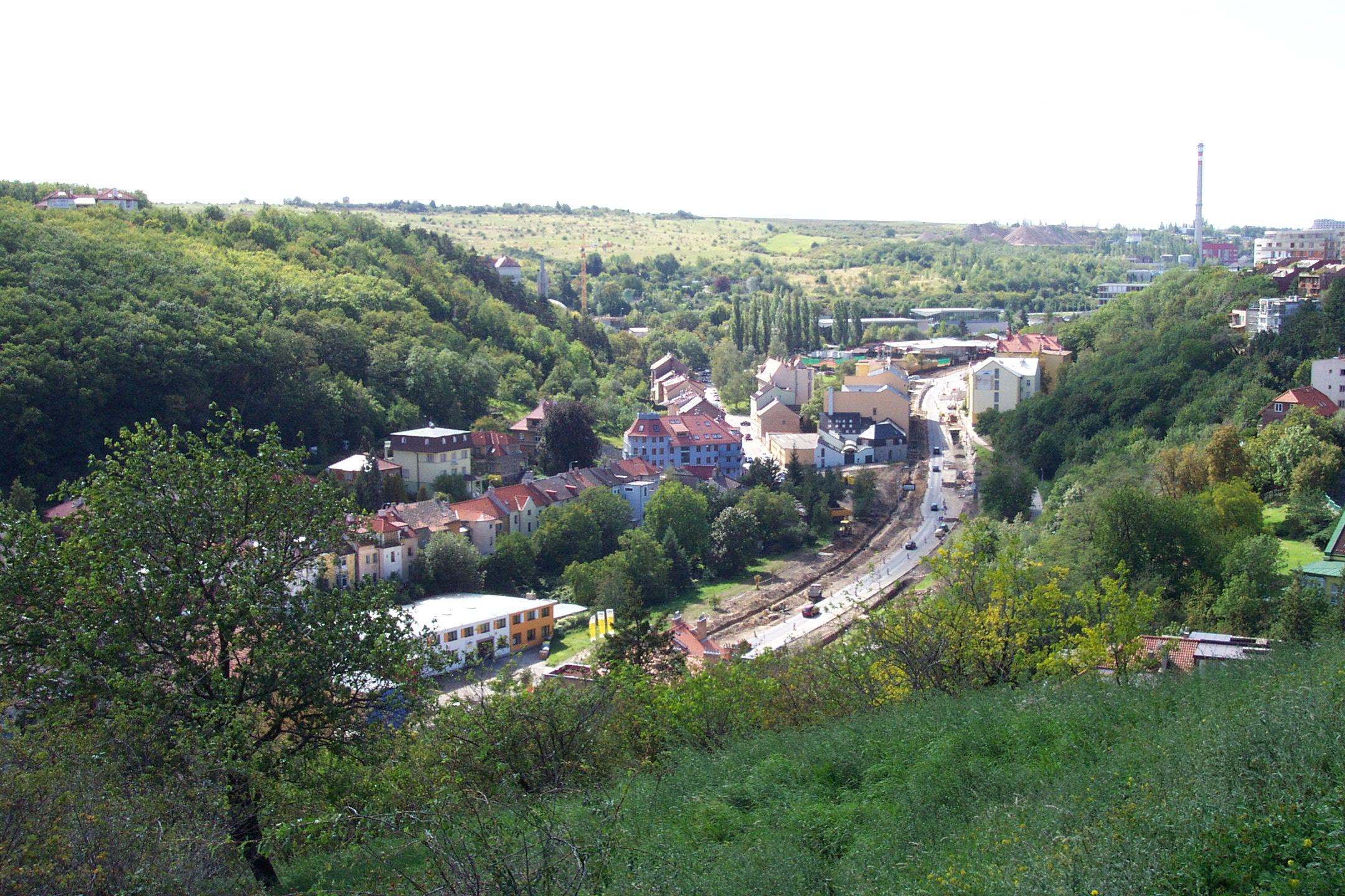 Lookout from Paví vrch hill in Prague-Smíchov, CZ